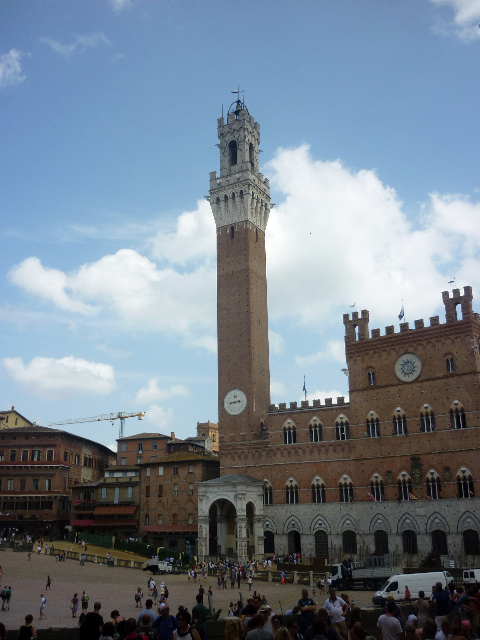 Palazzo Pubblico, Siena